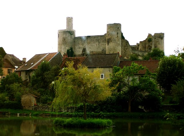 Chateau Billy - Photo: D.M. Vernon - 2005